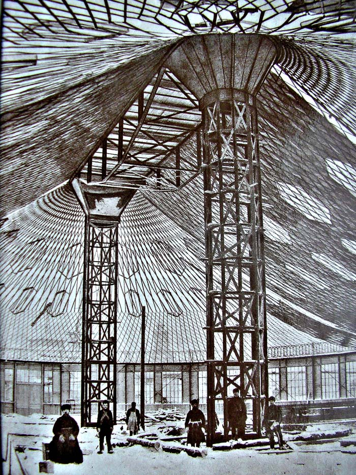 The Elliptical Pavilion of the Panrussian Exposition during construction, Nizhny Novgorod, 1896 - Tensile structure by great Russian engineer and scientist Vladimir Grigorievich Shukhov